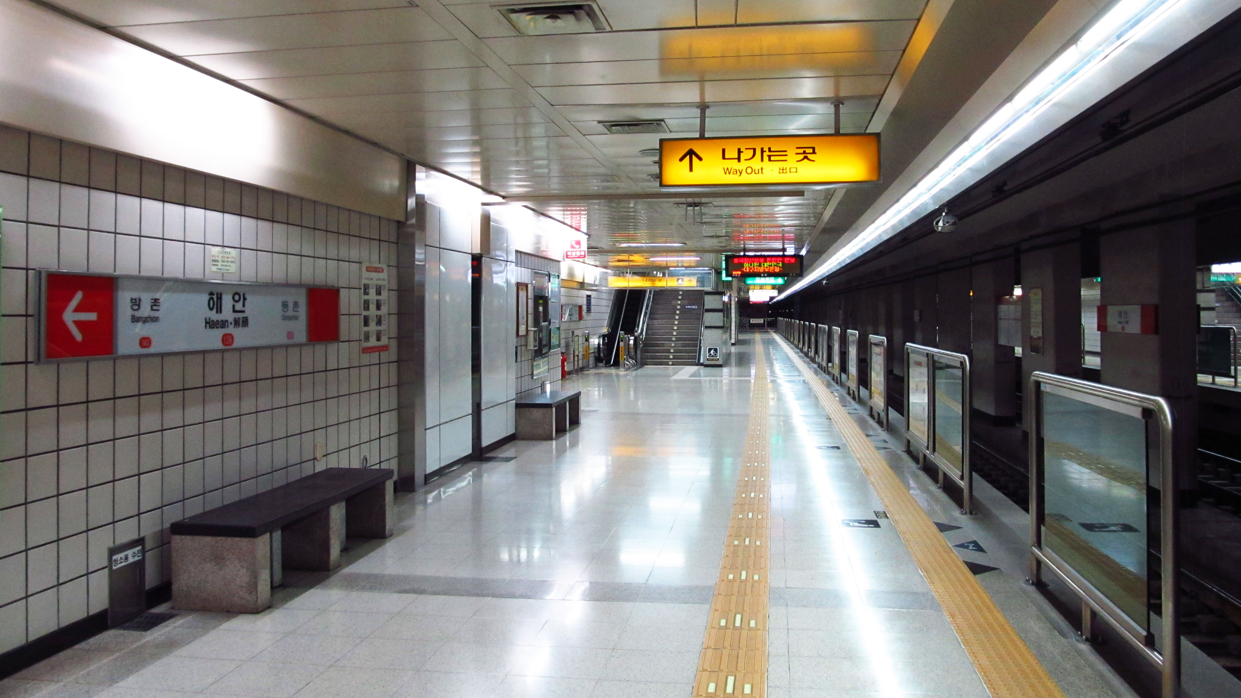 The platform of Haean Station on the Daegu Metro Line 1, for Bangchon, Ansim